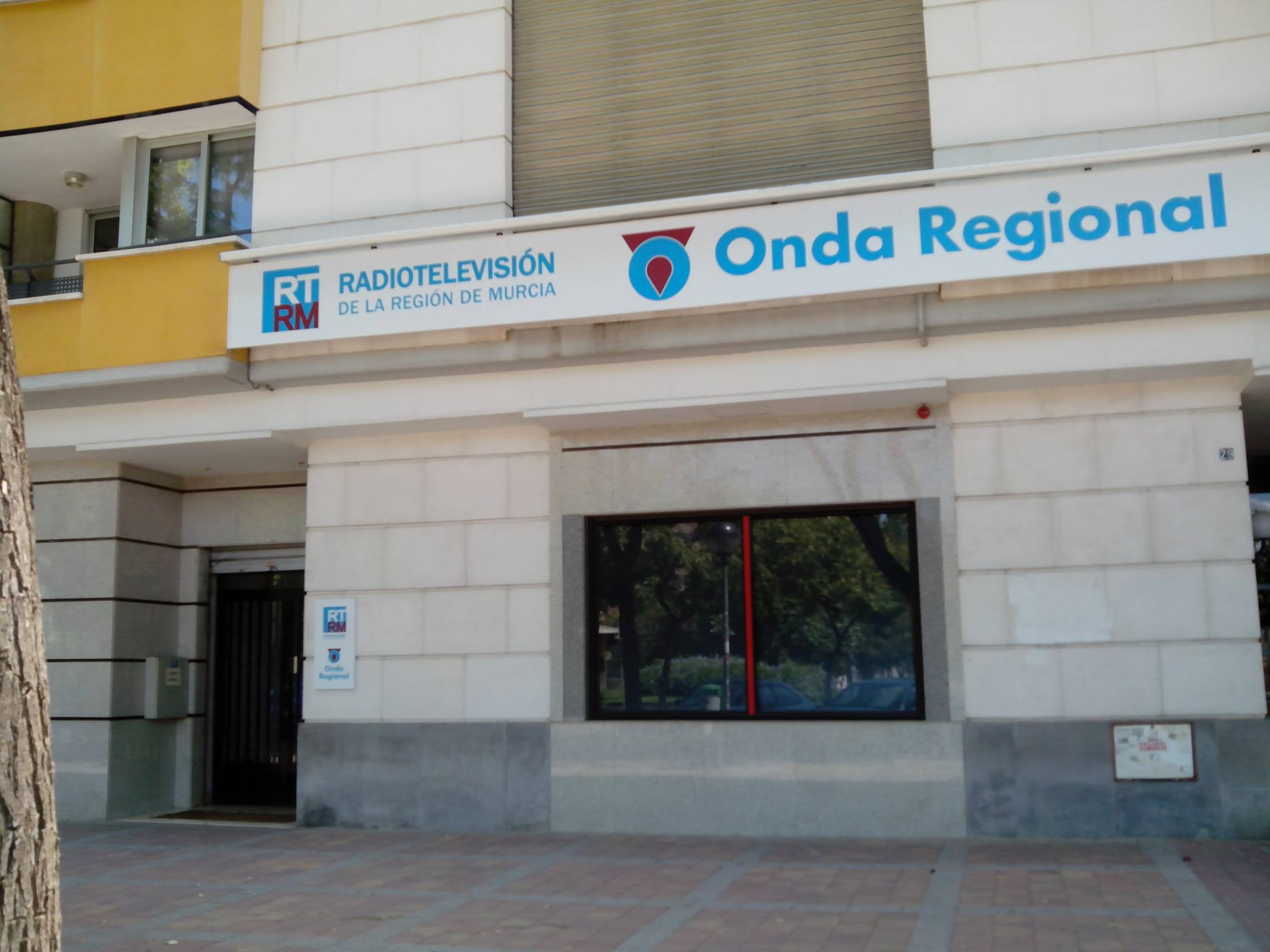 Exterior de Onda Regional de Murcia